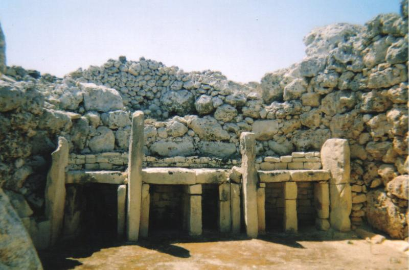 Copyright @ Daniel Hausner Taken: August 2004